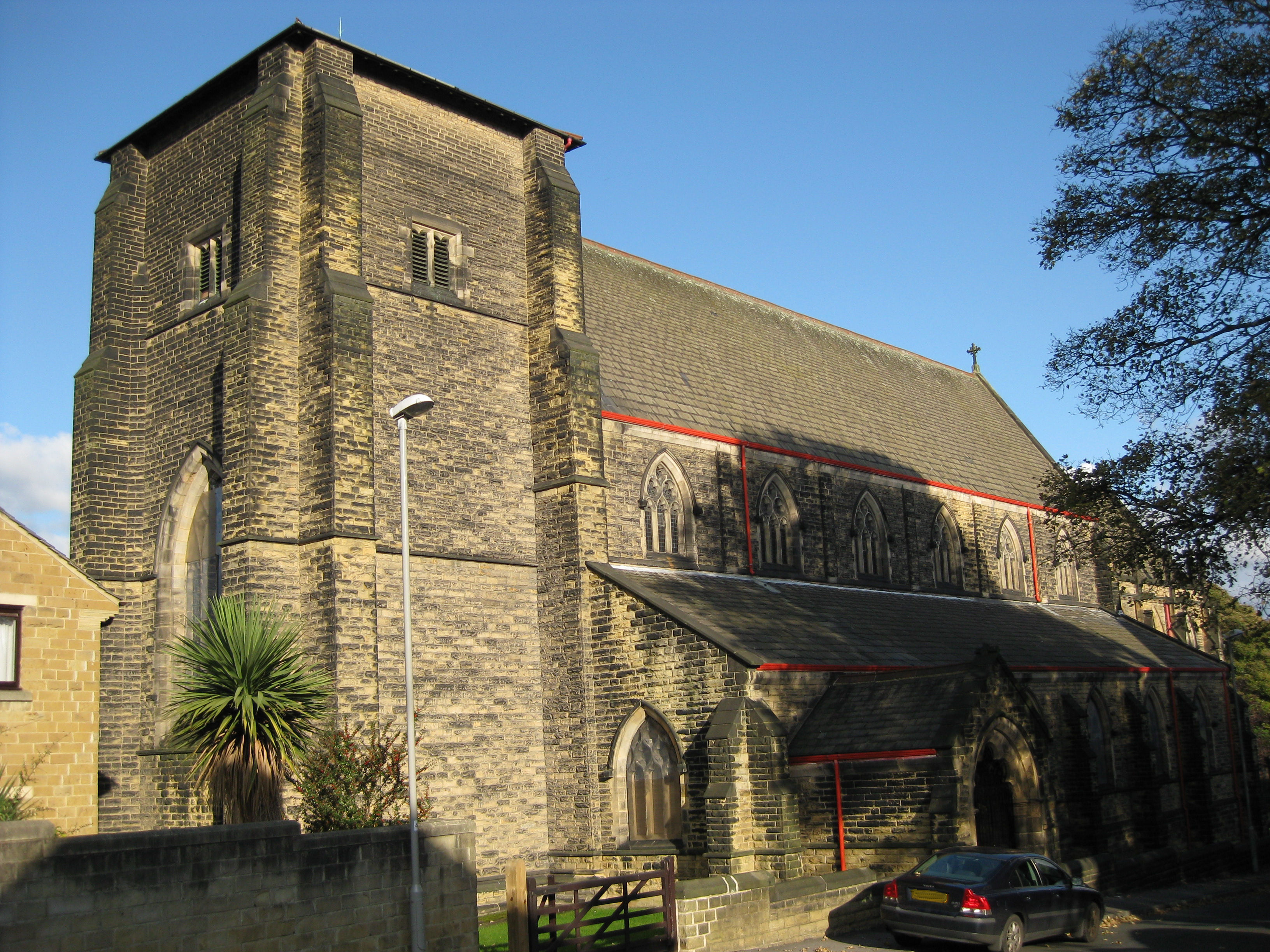 St Martin's parish church, St Martin's View, Potternewton, Leeds, West Yorkshire, LS7 3LB, seen from the southwest